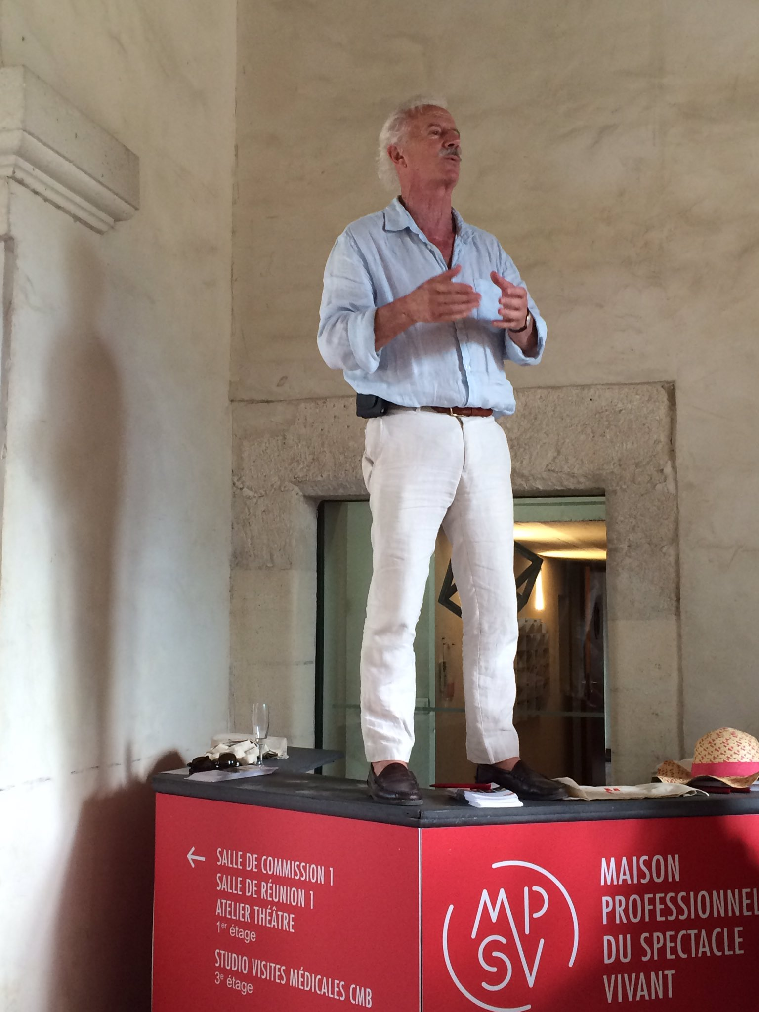 Jean-Paul Tribout at ADAMI